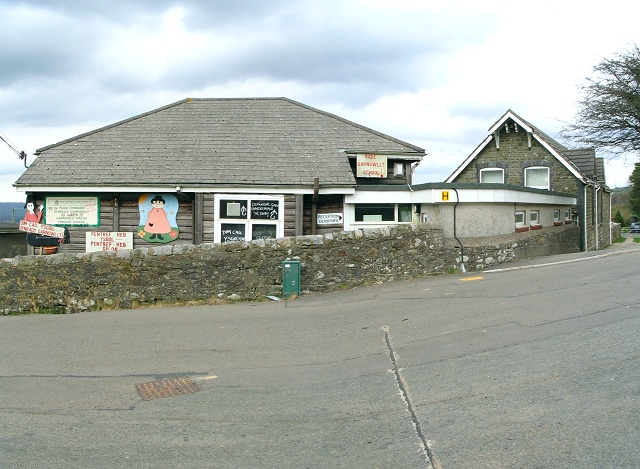 Garnswllt School The school (and the whole village) is covered in "save our school" slogans. Garnswllt is a small community on the distant edge of the City & County of Swansea and the school is probably facing closure.